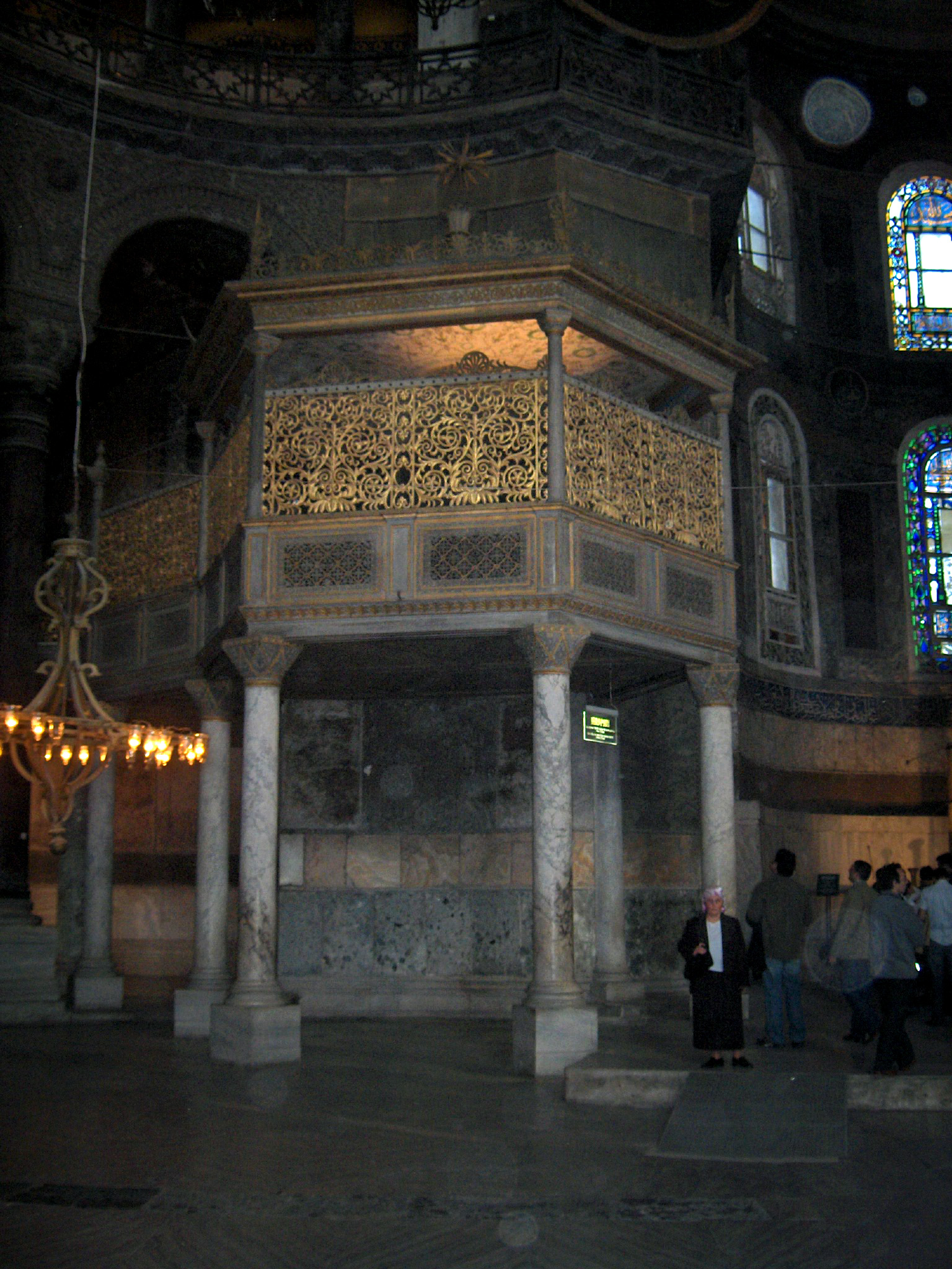 Hagia Sophia ; inside view : gallery of the sovereign; Istanbul, Turkey